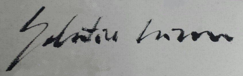 Salvatore Garau firm